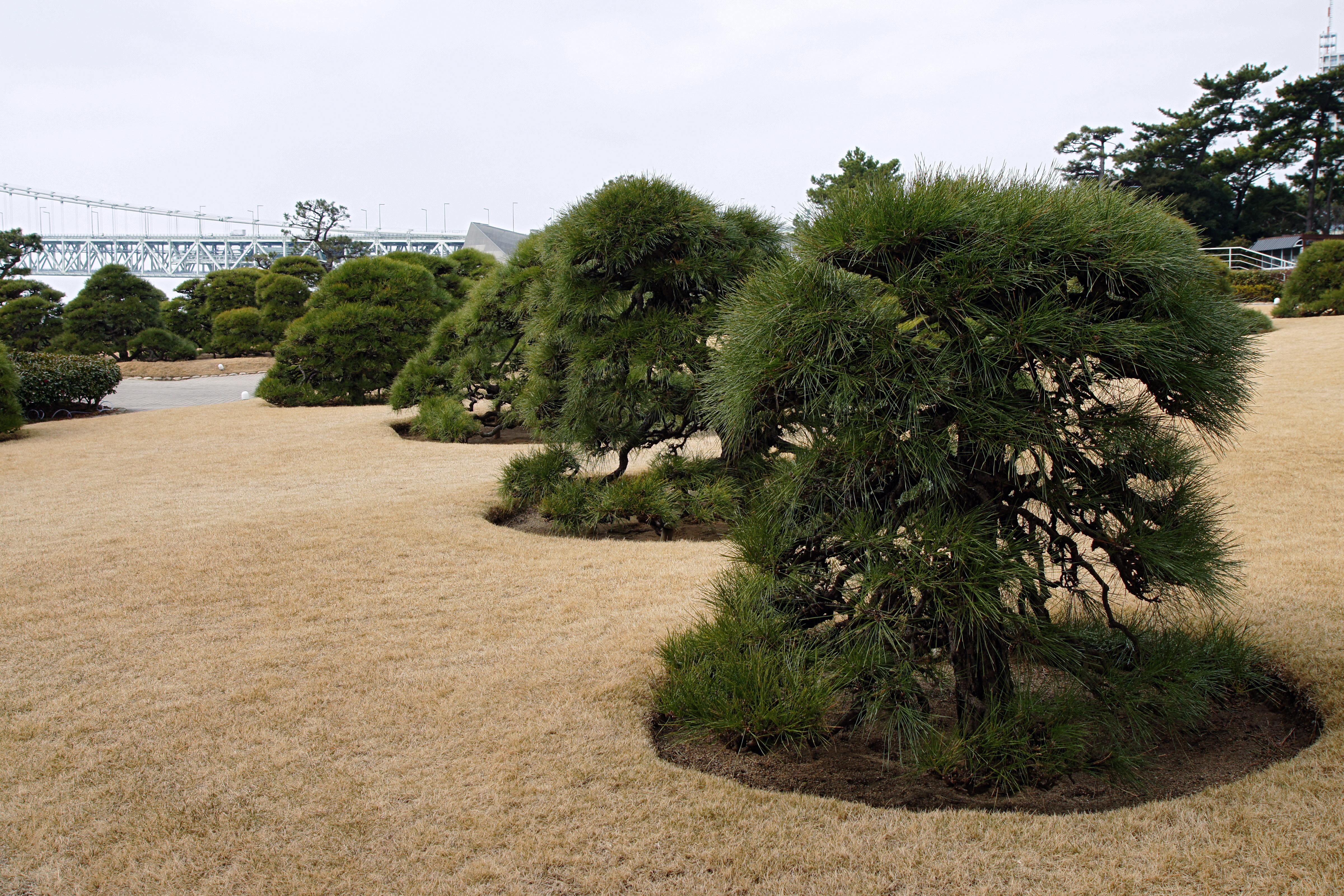 Seaside Hotel Maiko_Villa, Kobe, Hyogo prefecture, Japan